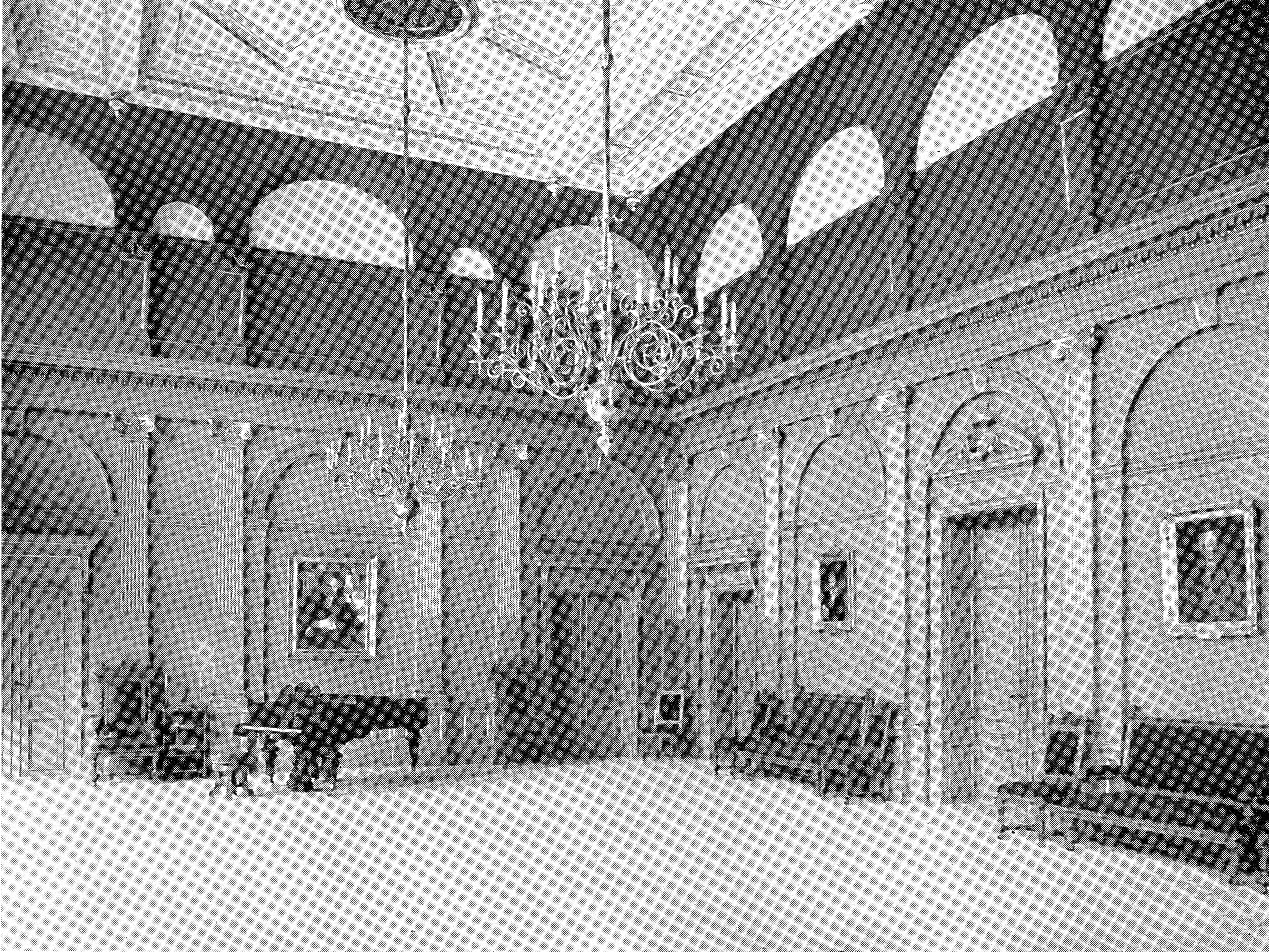 Göteborgs Nation, Uppsala. Third house. Nation hall.